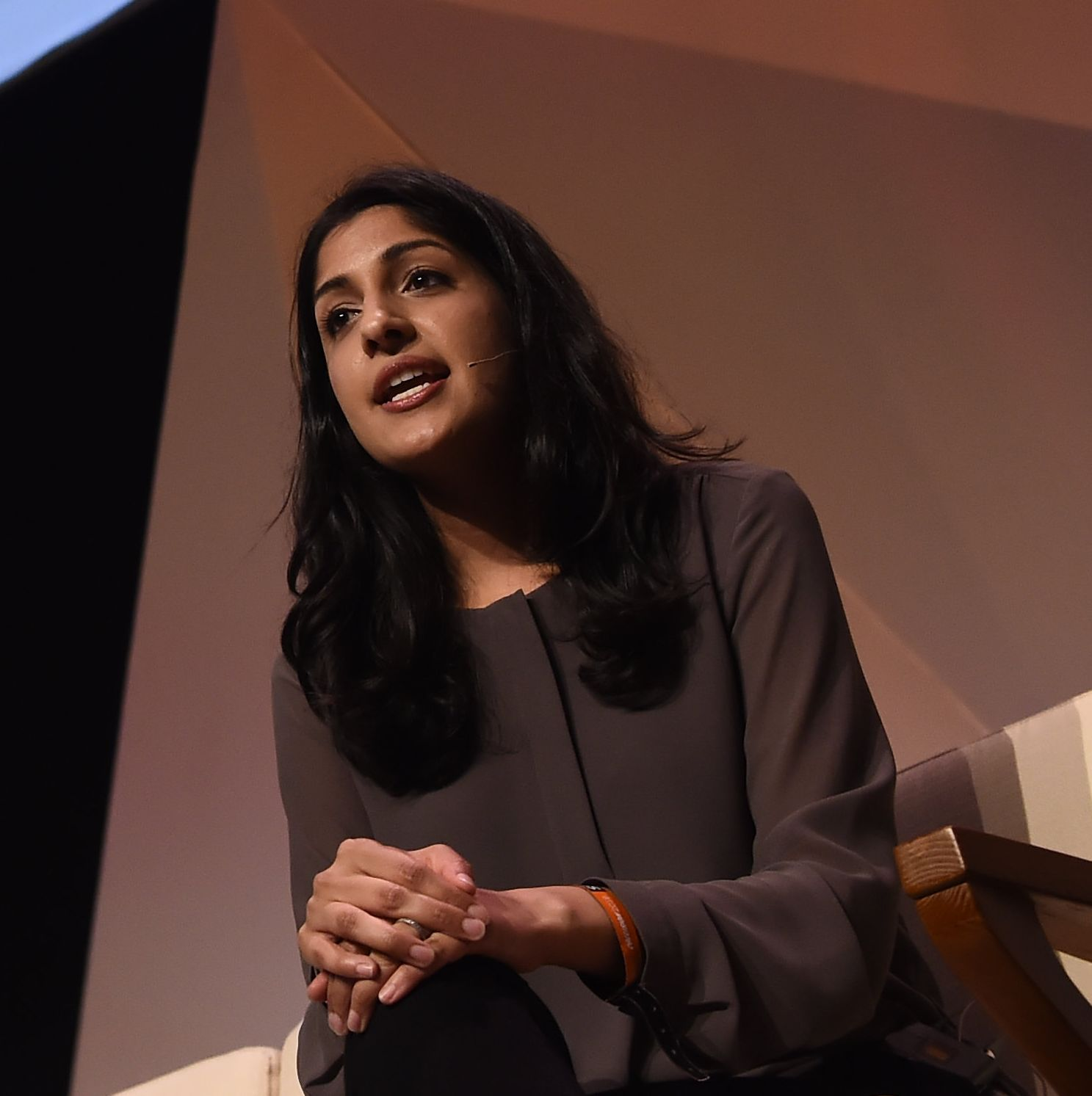 2 May 2018; Anjali Sud, CEO, Vimeo on centre stage during day two of Collision 2018 at Ernest N. Morial Convention Center in New Orleans. Photo by Stephen McCarthy/Collision via Sportsfile